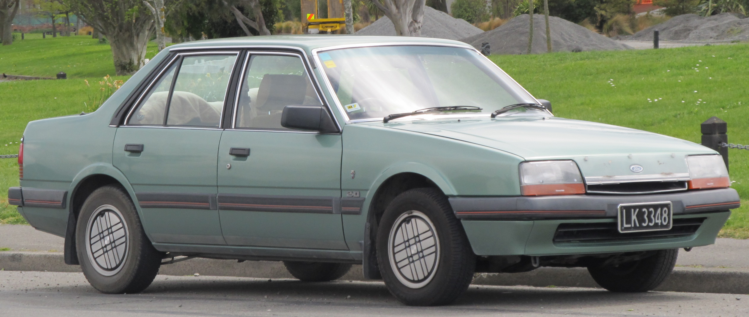 LK3348 These are starting to get rarer, so I thought this tidy Ghia, complete with those EPIC 80s wheels, was worth a photo! This is also a pretty early Telstar, as it was registered in January 1984...